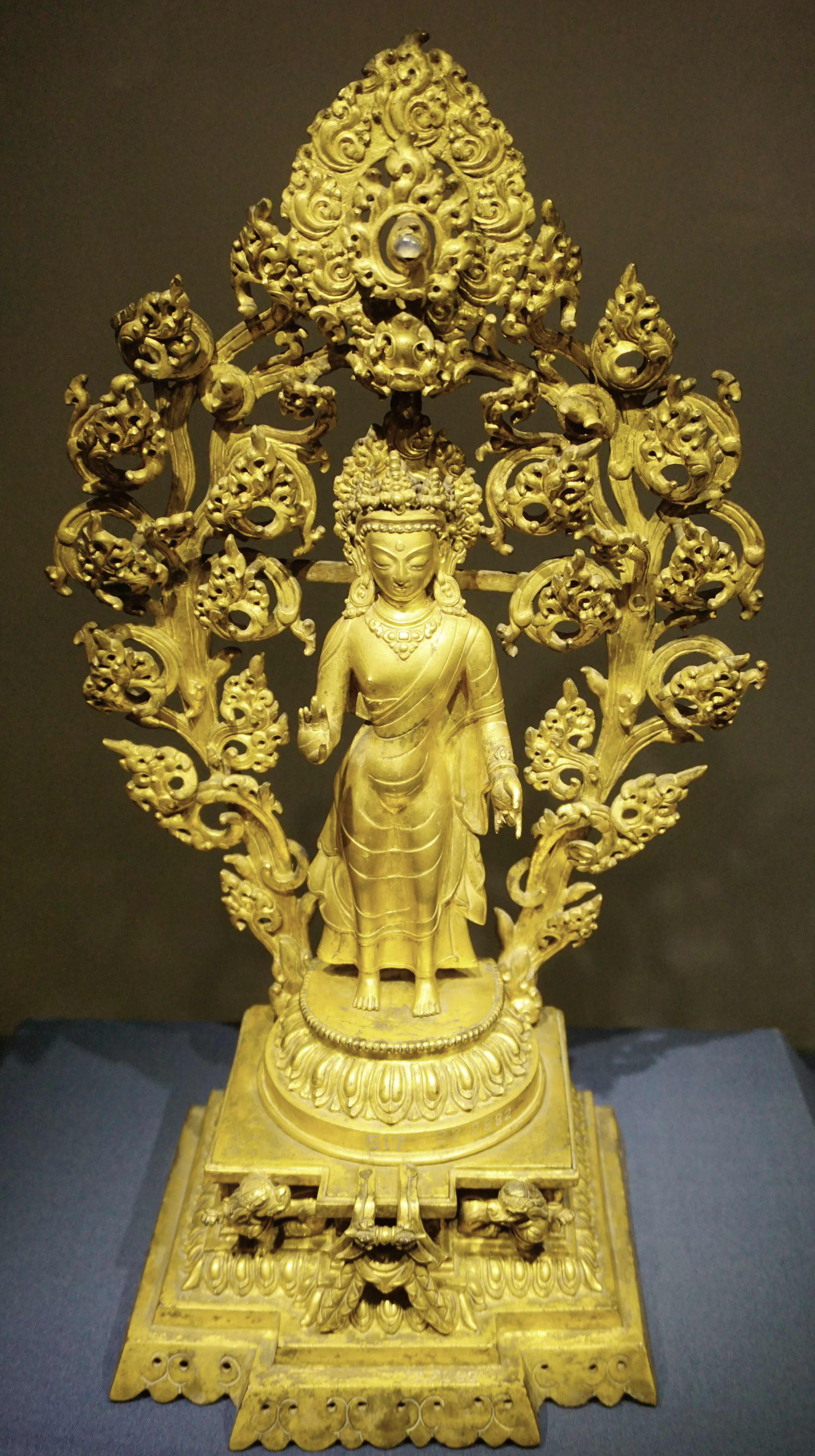 Photograph from the Himalayan Art Gallery in the Shivaji Museum, Mumbai